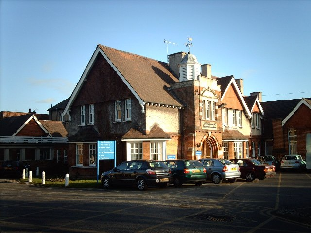 Finchley Memorial Hospital. Finchley Memorial Hospital, Granville Road, N12. Founded in 1908 as Finchley Cottage Hospital, it was enlarged following the 1914-18 war and renamed as a memorial to the fallen. This is the old building, replaced by a new one in 2012